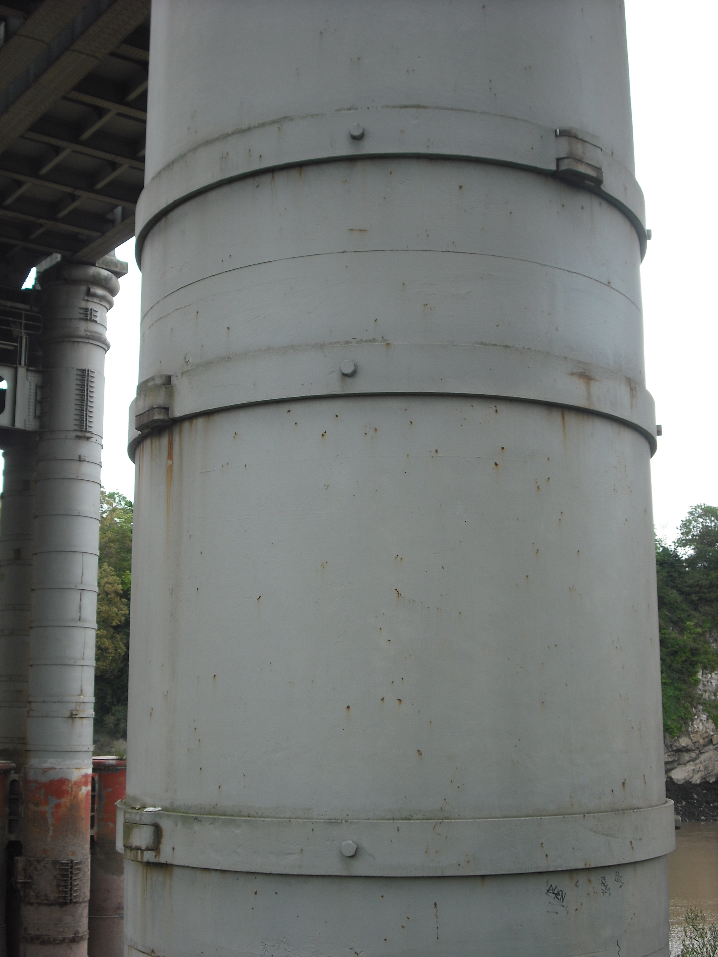 Brunel's cast iron pillars for the original Chepstow Railway Bridge, still supporting the modern railway bridge. Wrought iron straps increase the hoop stress that the cast iron pillars can support.